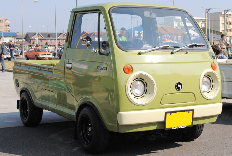 Mazda Portercab.